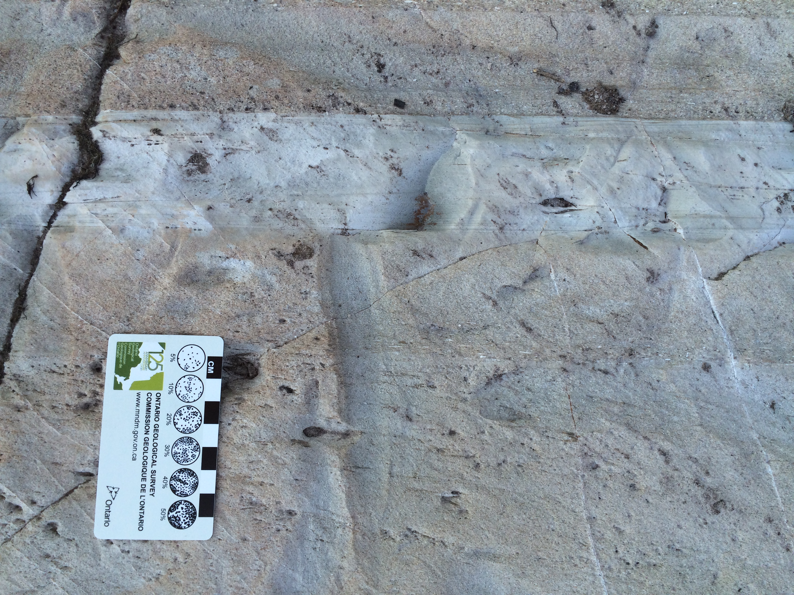 Crisp conformable sandstone bedding contact. Outcrop location near Terrace Bay, Ontario.